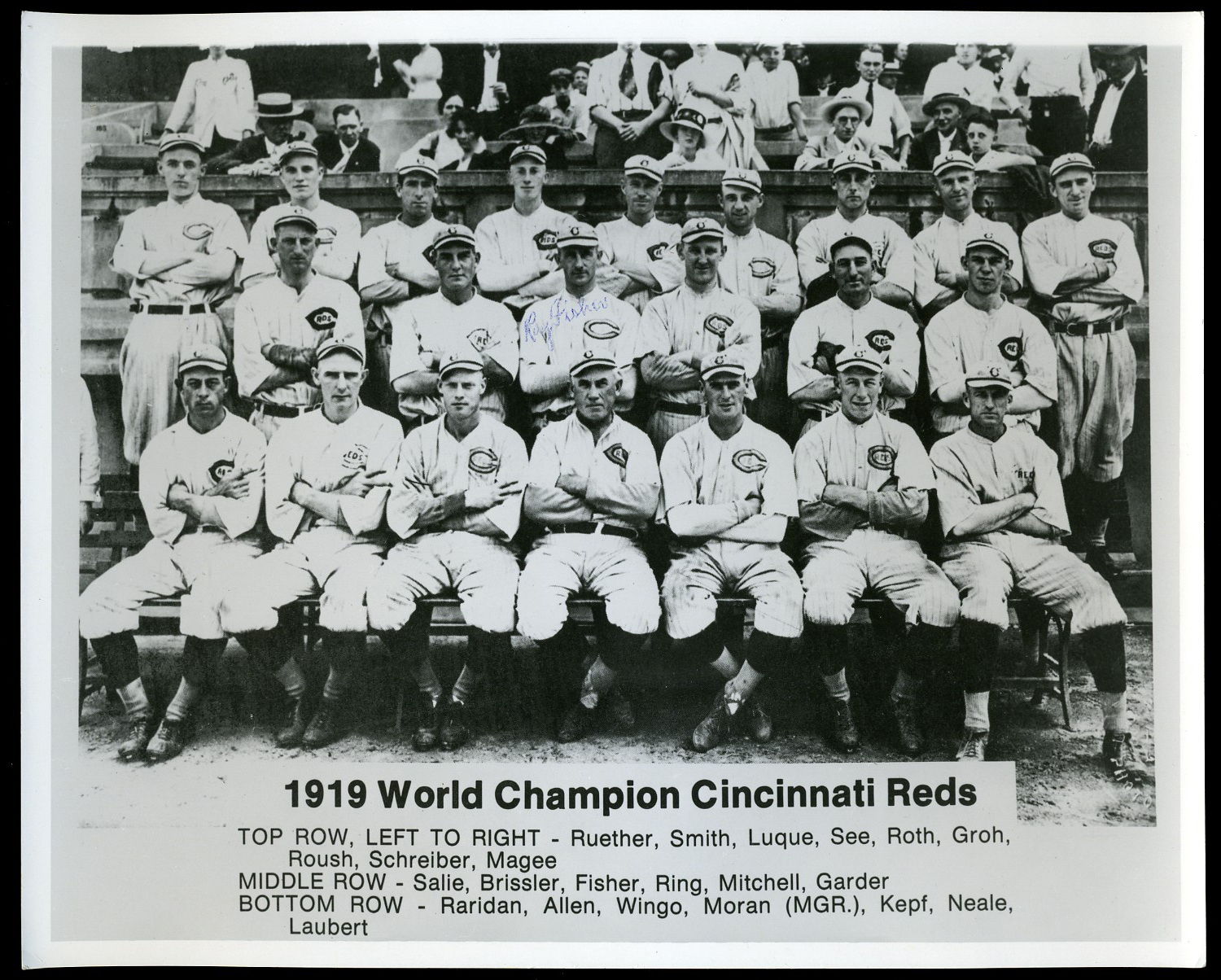 1919 World Champion Cincinnati Reds